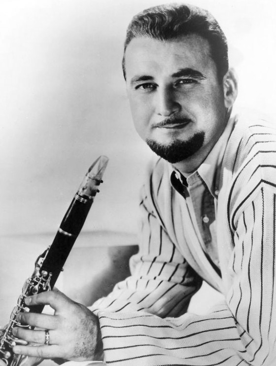 Publicity photo of musician Pete Fountain from his appearance on a Bing Crosby television special.